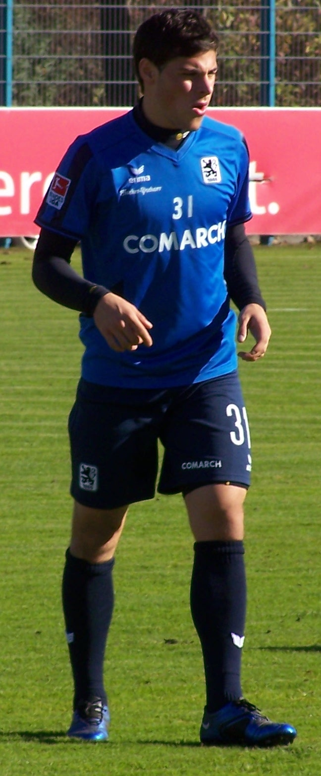 Kevin Volland, 1860 munich, training